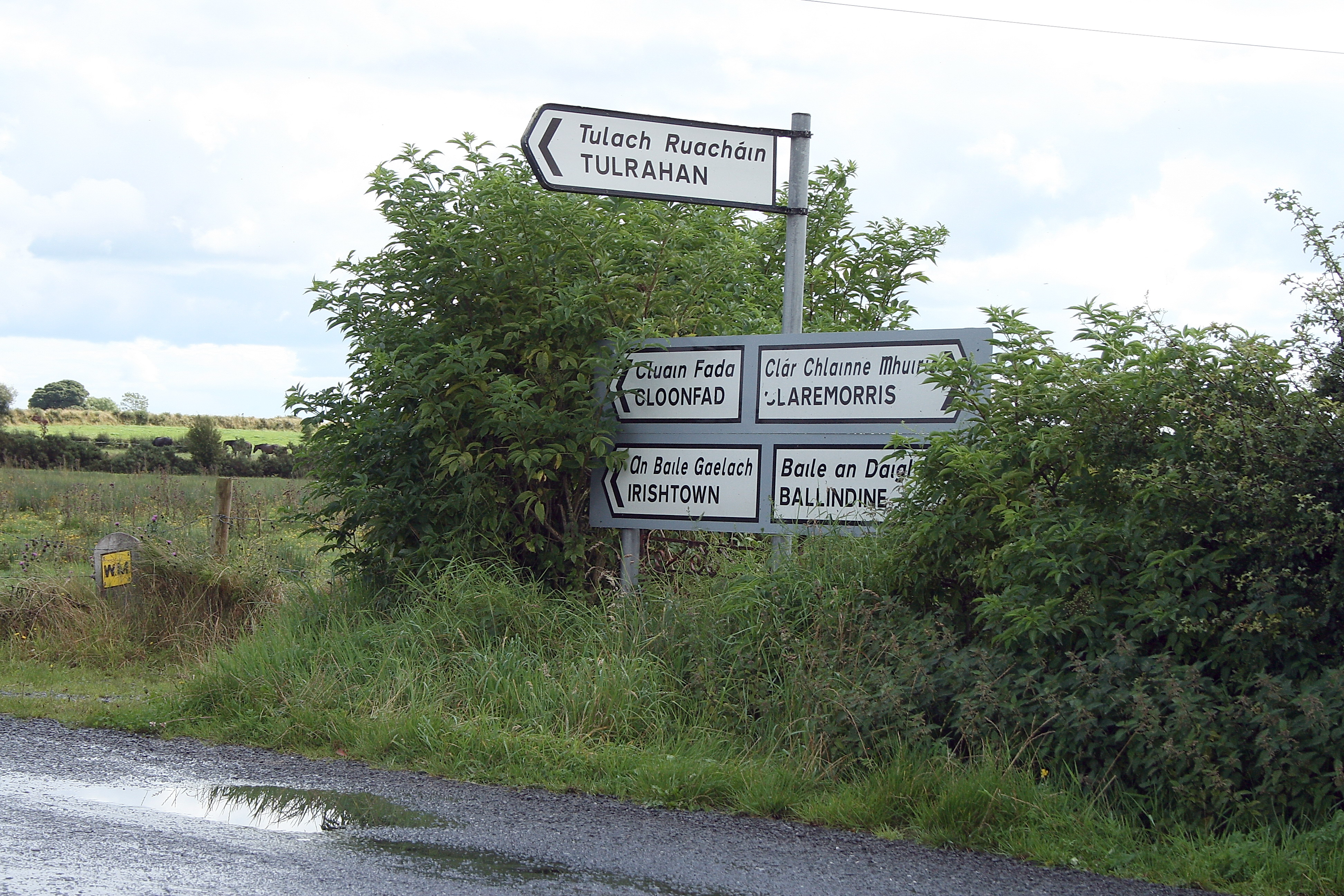 Sign on the R327 in County Mayo